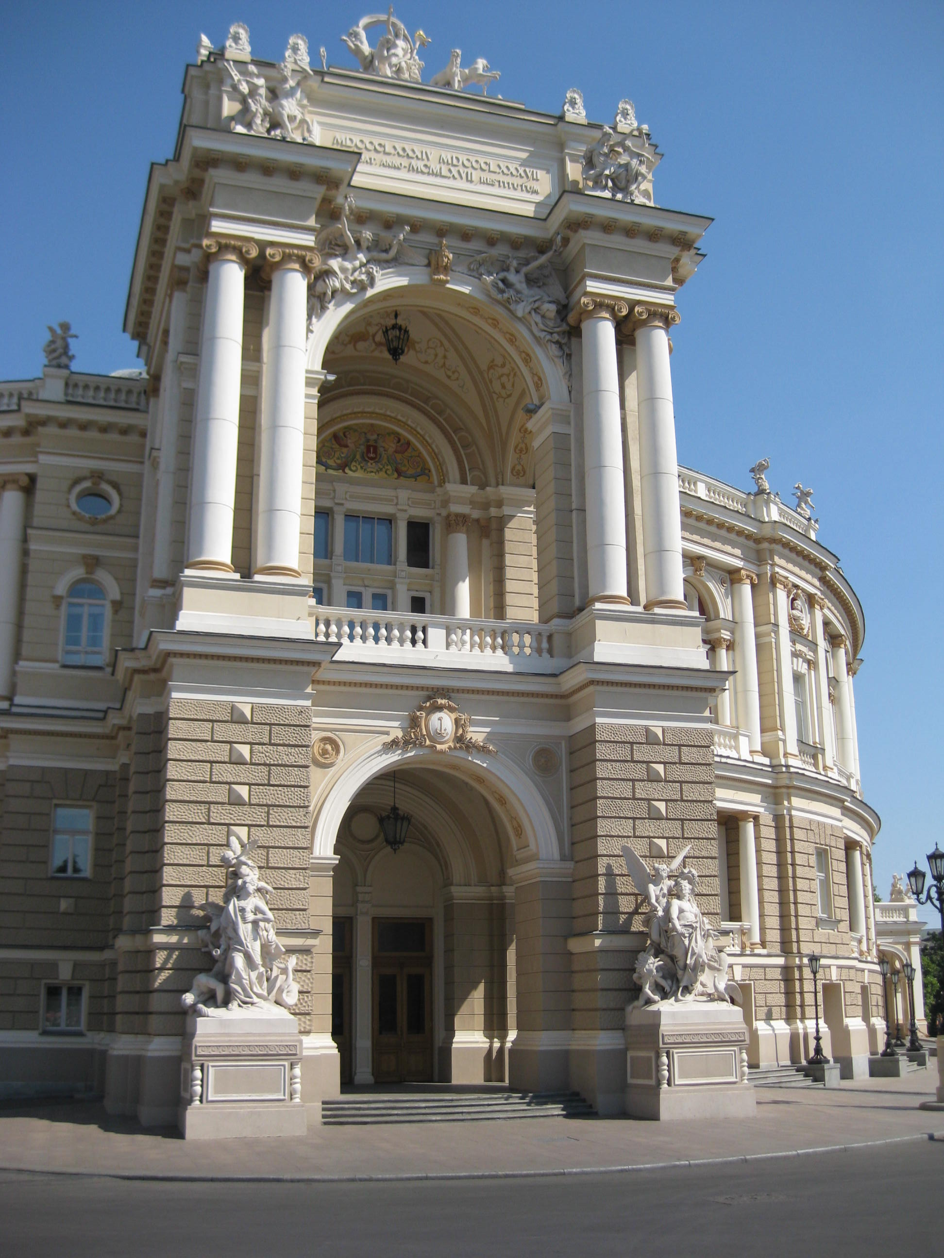 Odessa Theatre and Operahouse, Ukraine